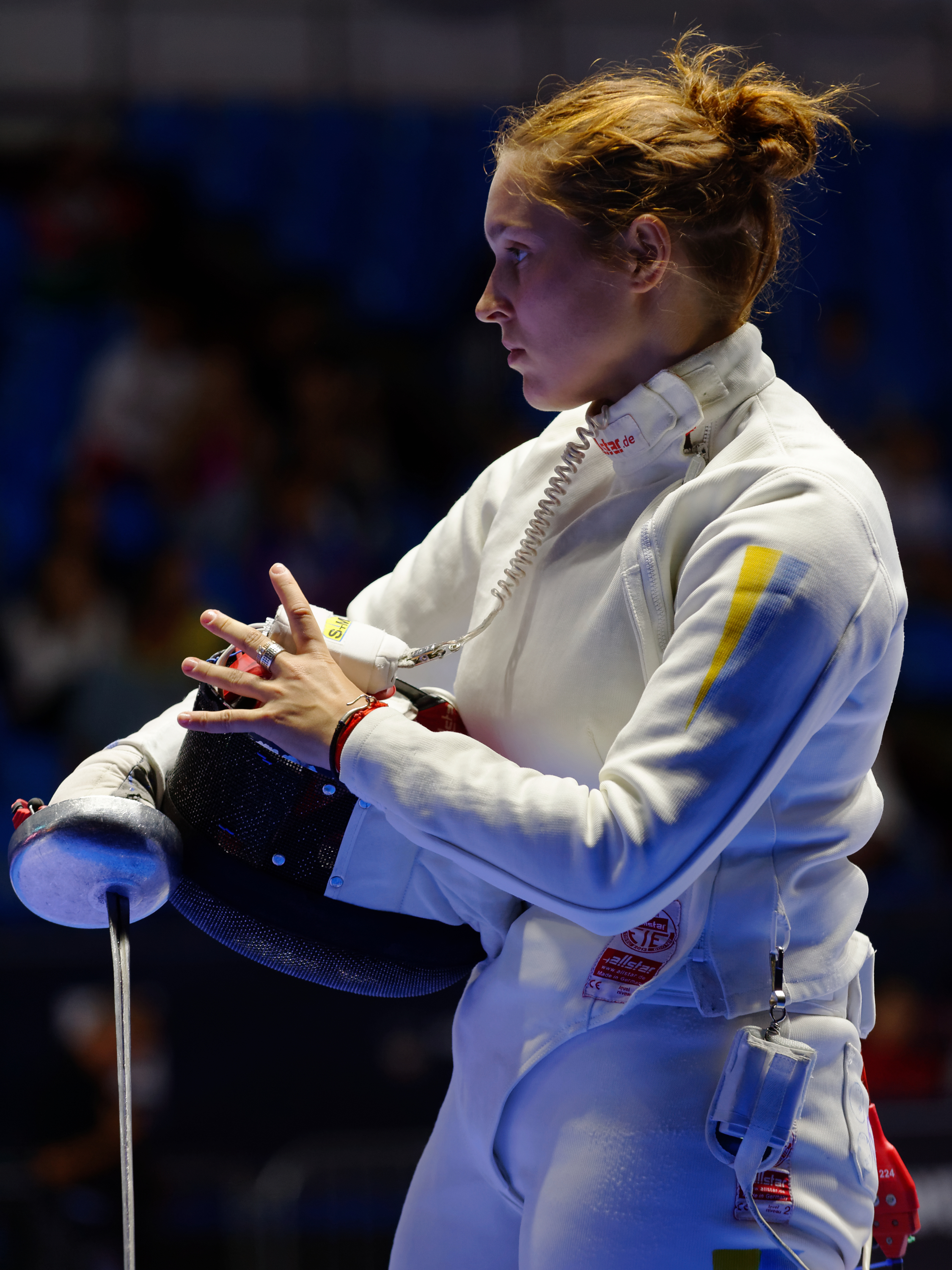 Ukraine's Kseniya Pantelyeyeva at the 2015 World Fencing Championships on 15 July 2014 at the Olympic Stadium in Moscow.